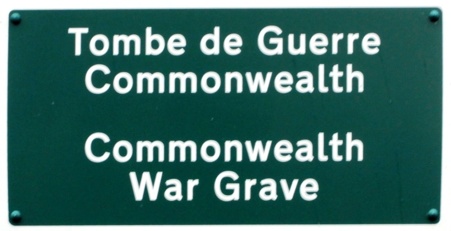 Commonwealth War Grave pannel